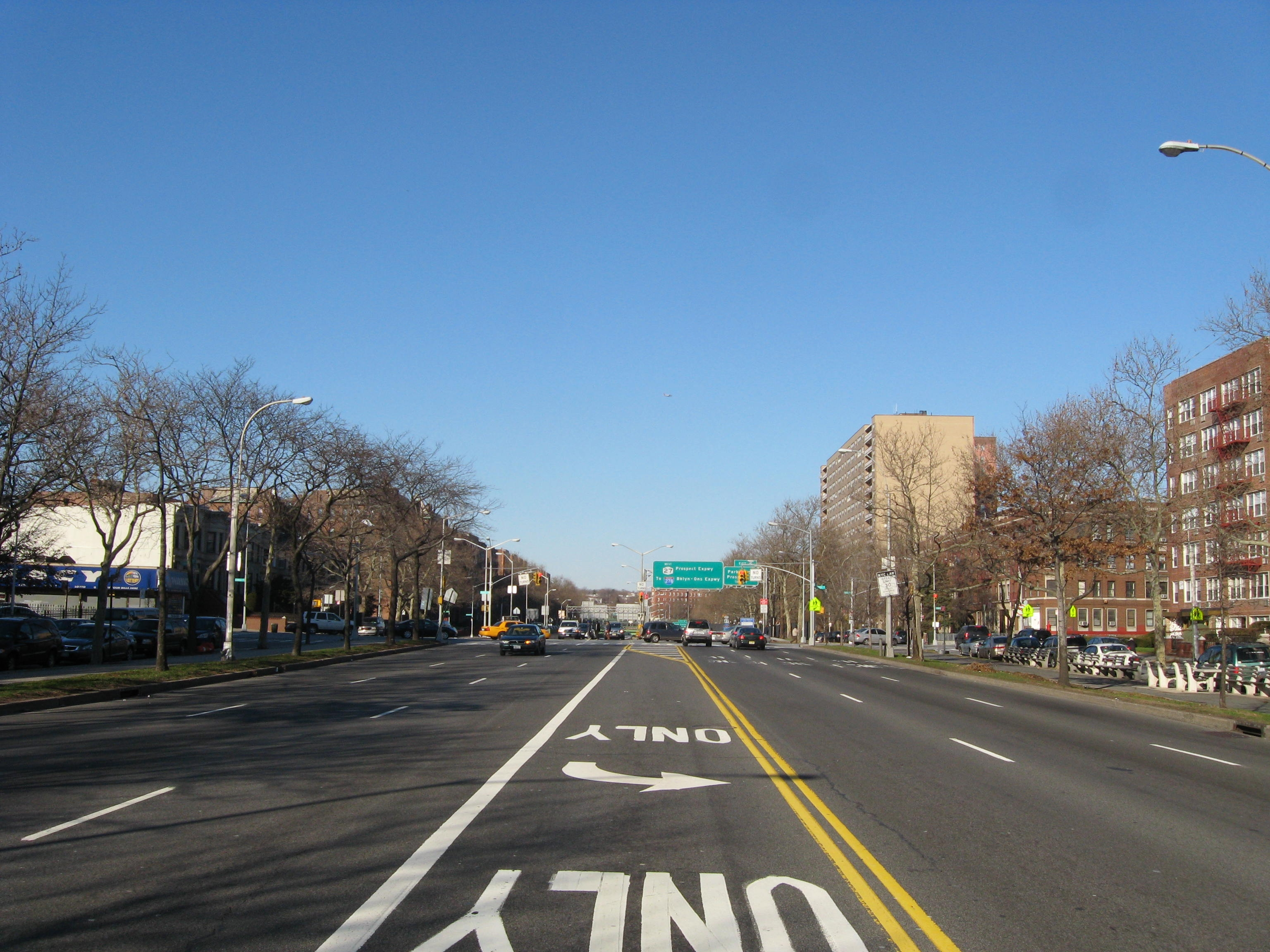 Looking north on Ocean Parkway, Brooklyn from Beverley Road on a sunny Christmas afternoon.